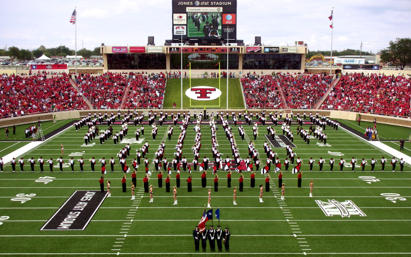 Prior to first game of 2008/09 Red Raiders football season at Texas Tech University in Lubbock, Texas. The Red Raiders went on to defeat Eastern Washington University, 49–24.